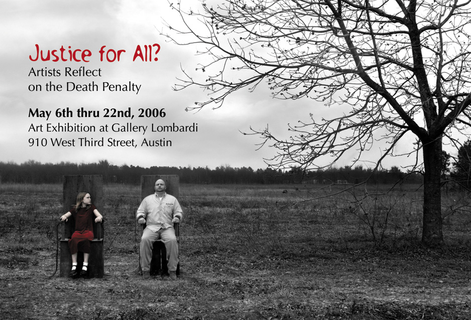 Postcard created for Texas Moratorium Network for the Death Penalty Art Show May 6-22, 2006. own work.